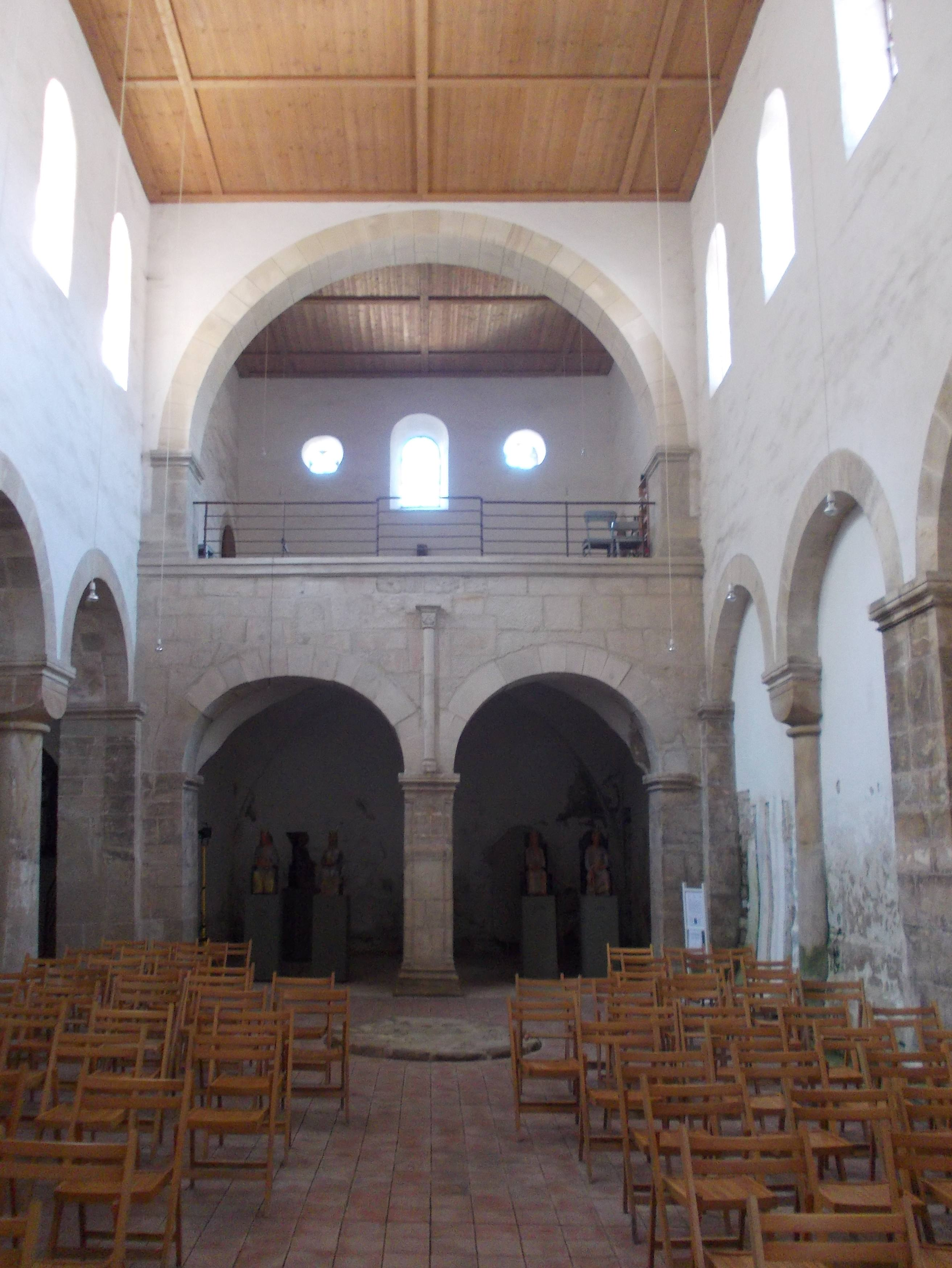 St. Thomas' Church in the Neumarkt quarter in Merseburg (district: Saalekreis, Saxony-Anhalt)